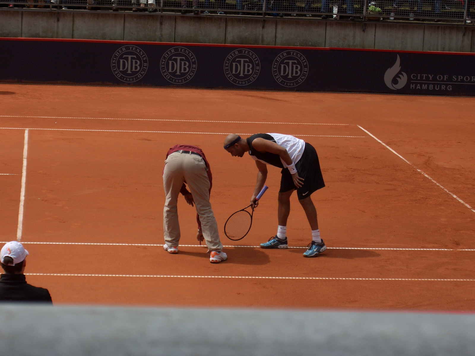 James Blake at the Hamburg Masters 2007, playing Carlos Moya